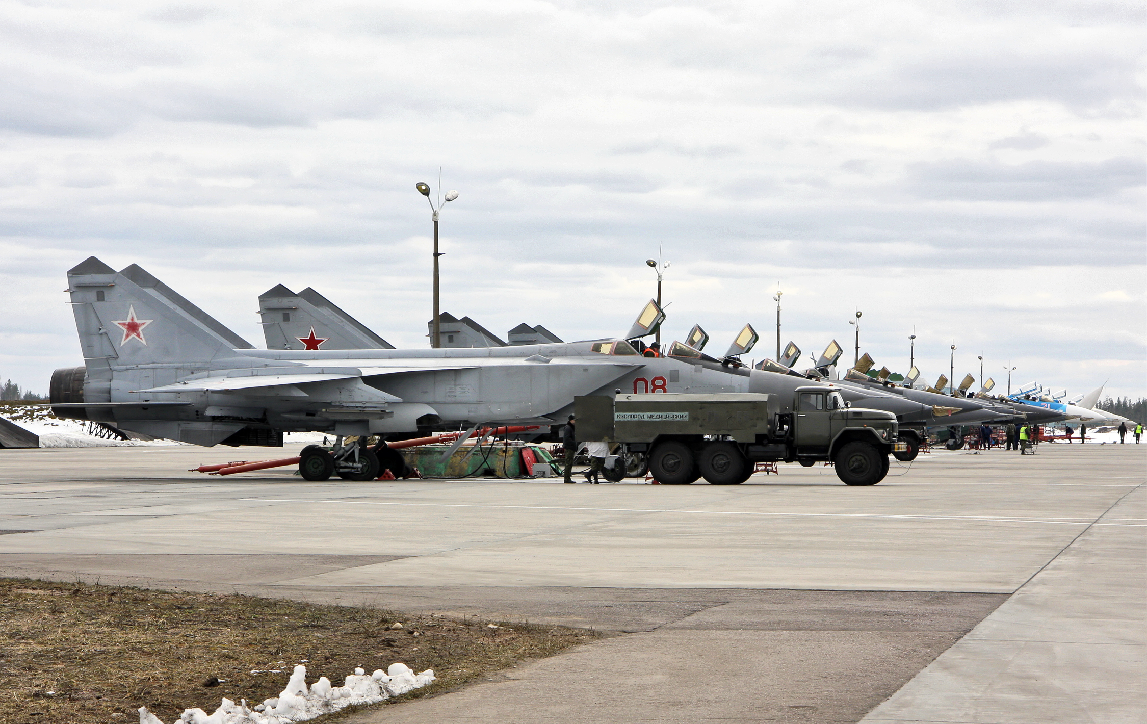 790th Fighter Order of Kutuzov 3rd class Aviation Regiment, Khotilovo airbase